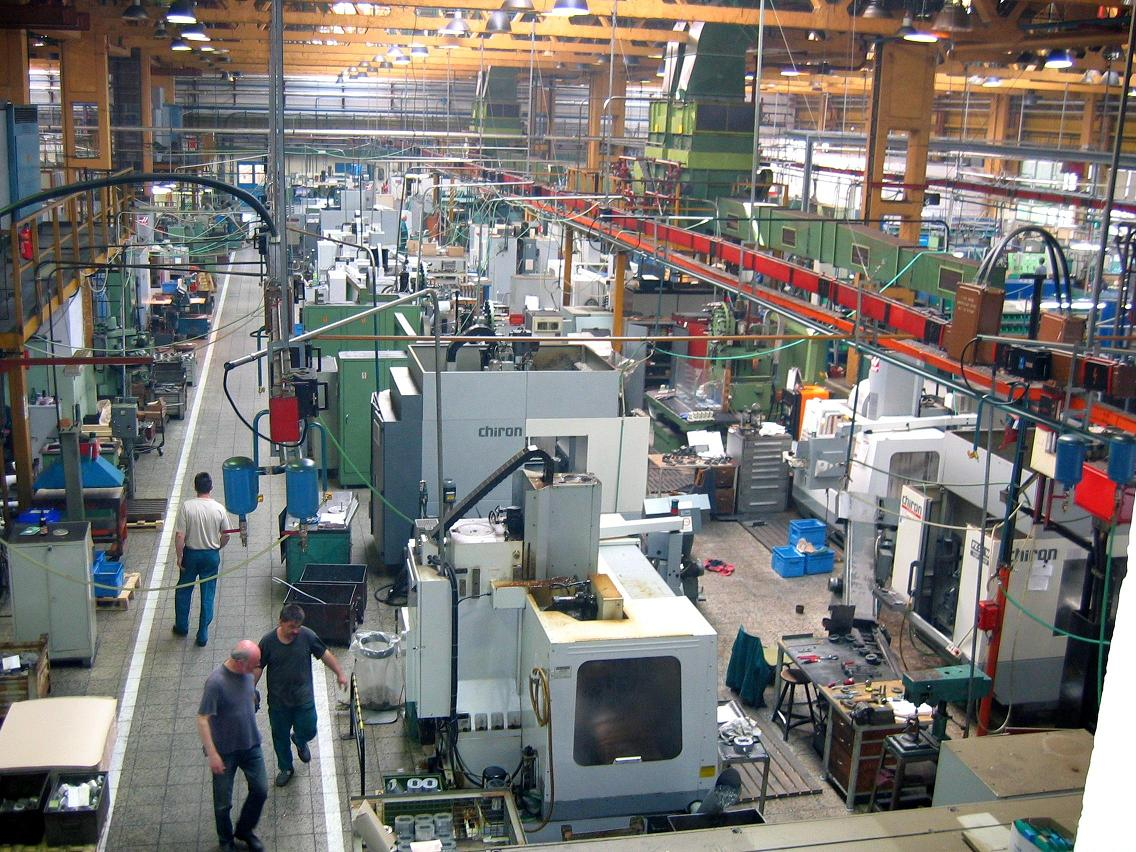 Jihostroj Manufacture facility M6